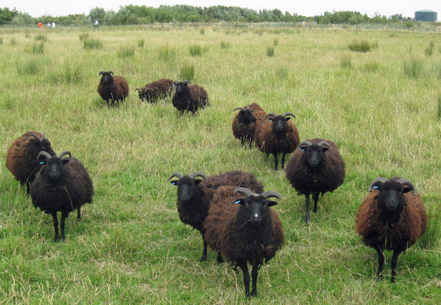 Field with Hebridean Sheep - Waters' Edge Park The Hebridean sheep in this rather marshy field are part of a flock owned by North Lincolnshire Council and are employed as Vegetation Control Operatives.